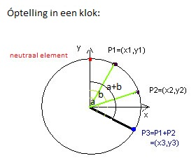 Addition of points within the circle with radius 1